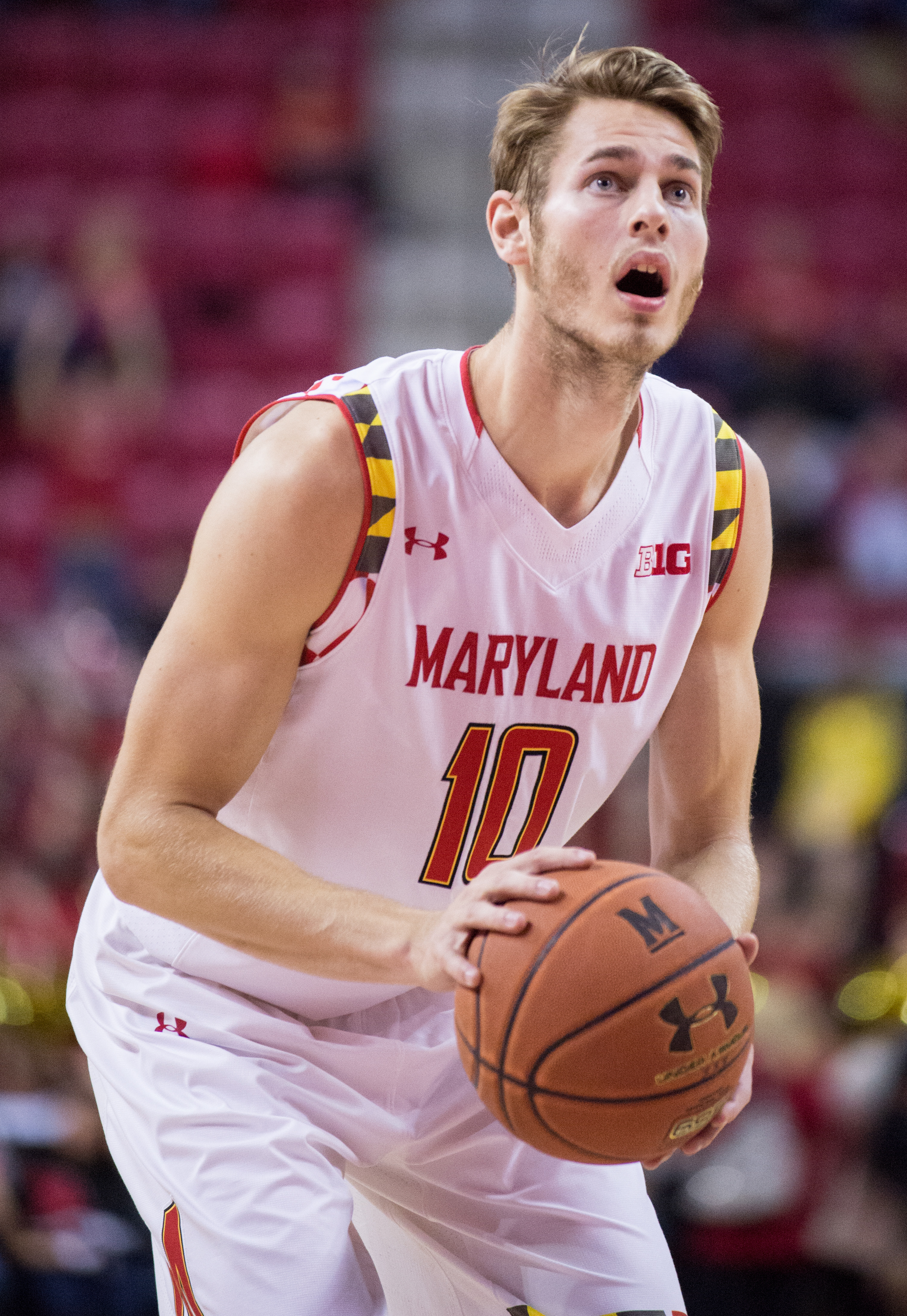 Alexander Jonesi/The Diamondback